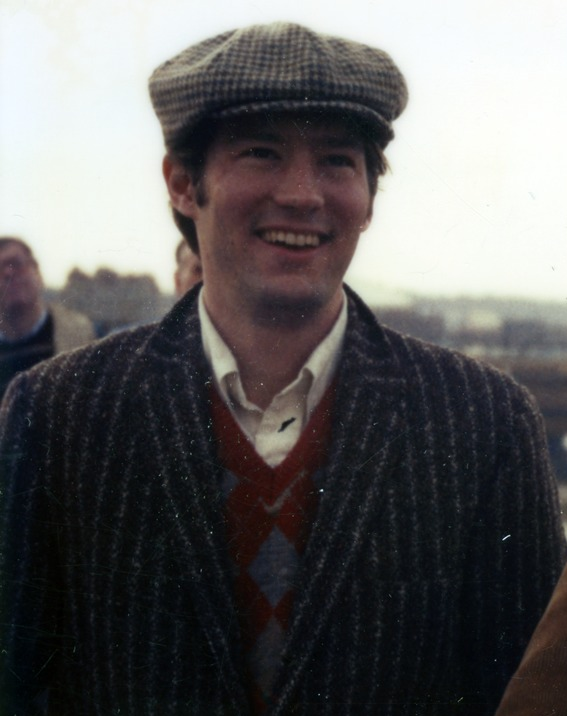 Peter Steinbrueck at Market Park (near the north end of Pike Place Market, Seattle, Washington), 1984. Steinbrueck was later a member of the Seattle City Council. The park was later renamed in honor of his father, architect and preservationist Victor Steinbrueck, after he died in 1985.